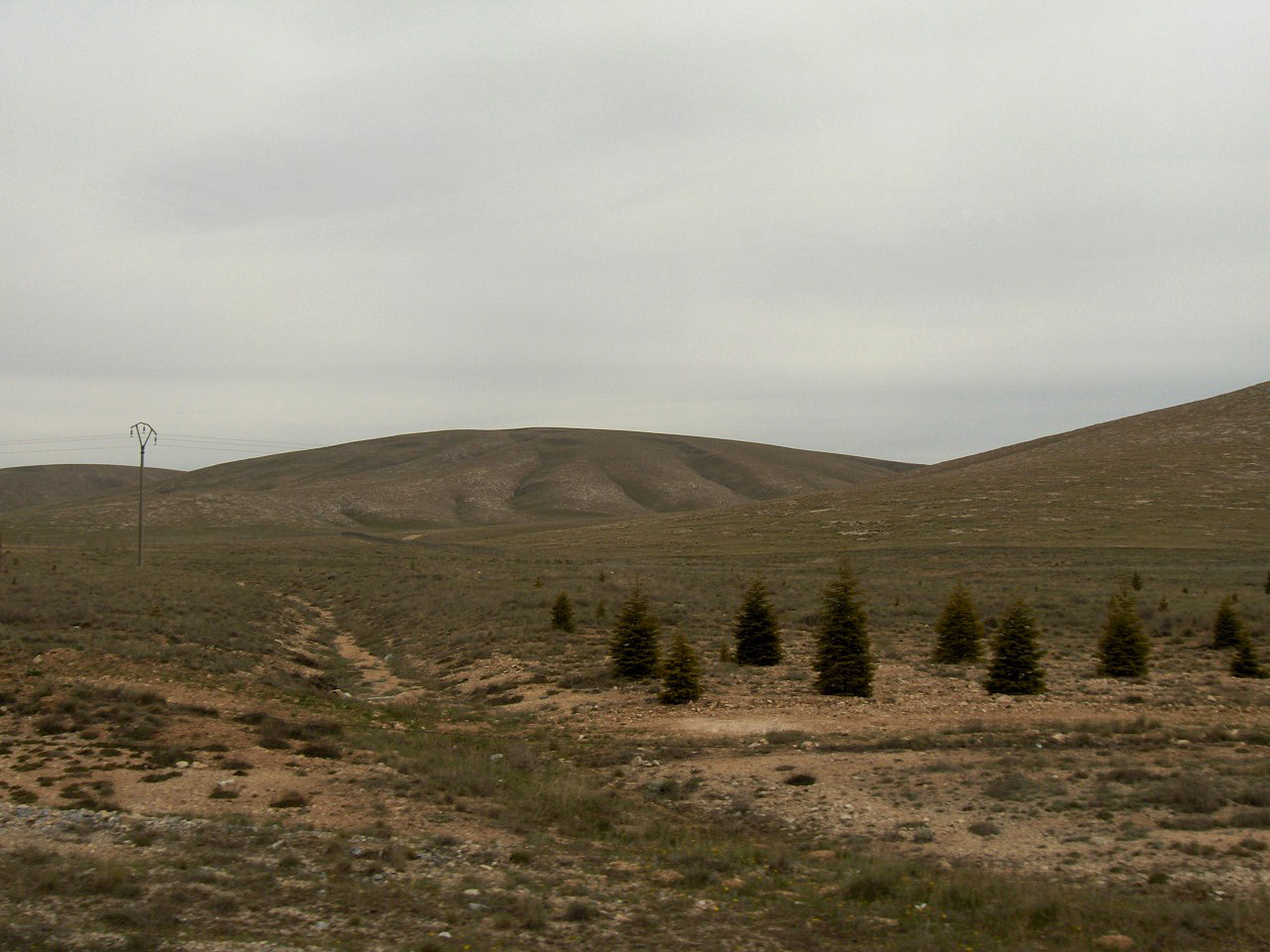 Landscape at Aksaray, Turkey.